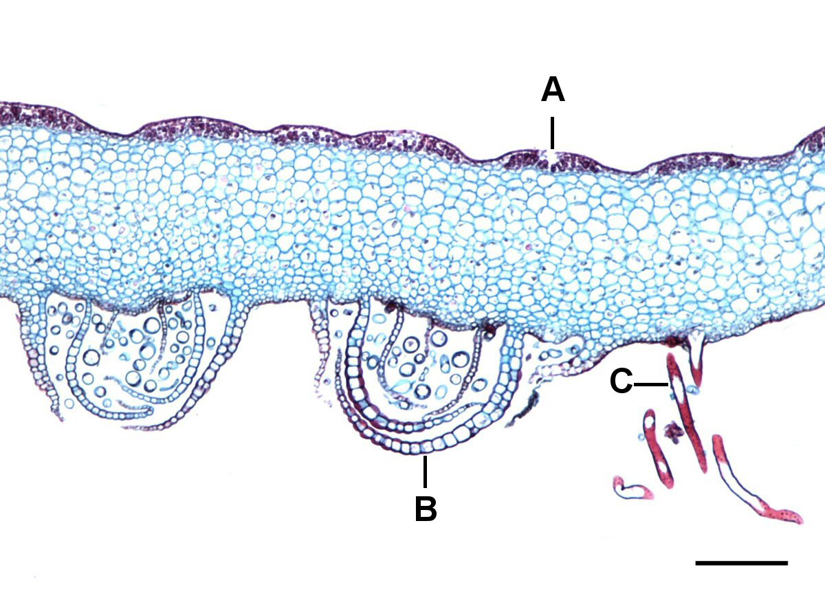 Transverse section of a Marchantia thallus with and air pore, the protective scales, and a rhizoid. A=Air pore, B= Scales, C=Rhizoid. Scale = 0.2mm.